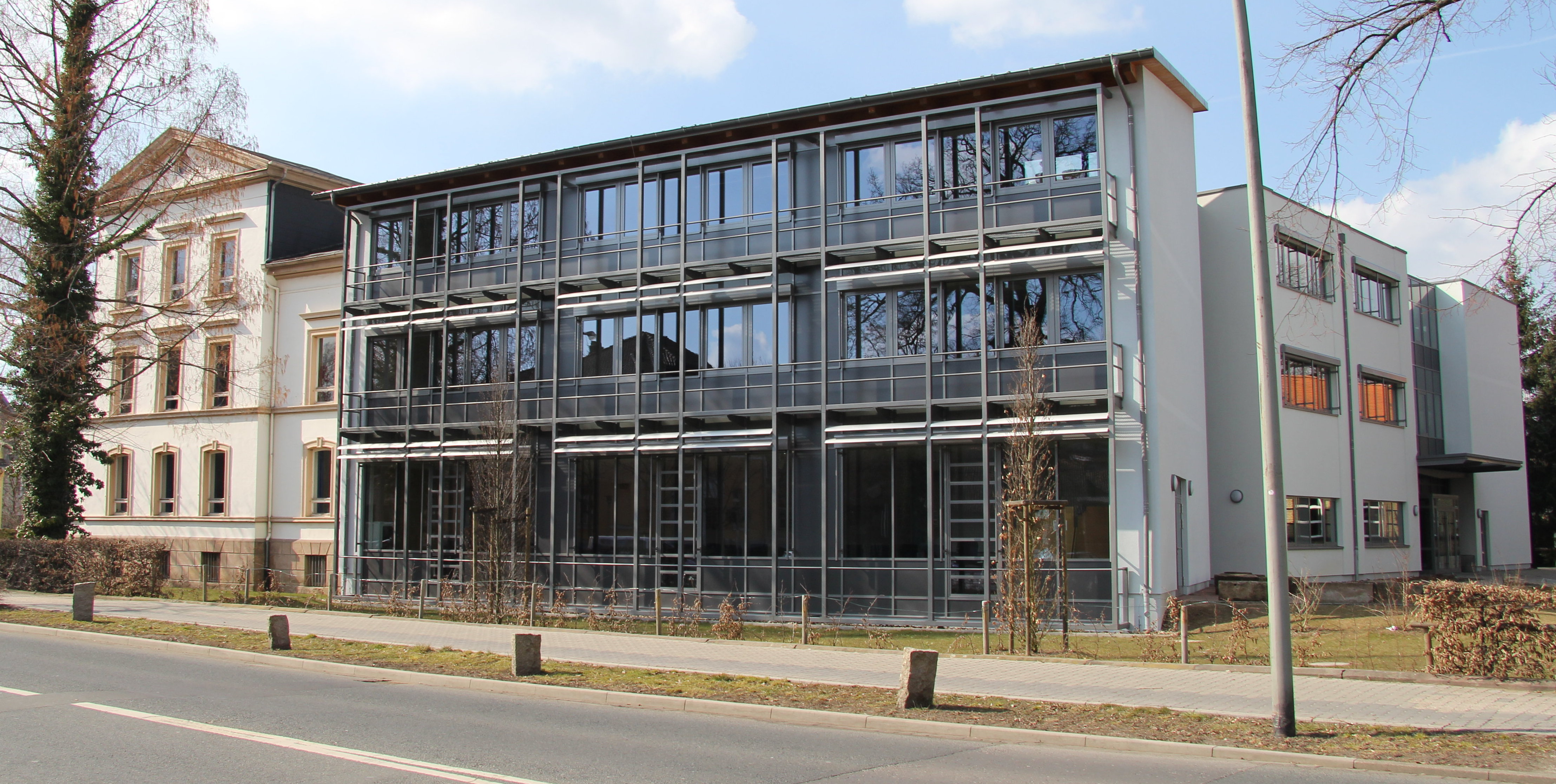 Auxiliary buildings of "Grosse Schule" high school in Wolfenbüttel, Lower Saxony / Germany